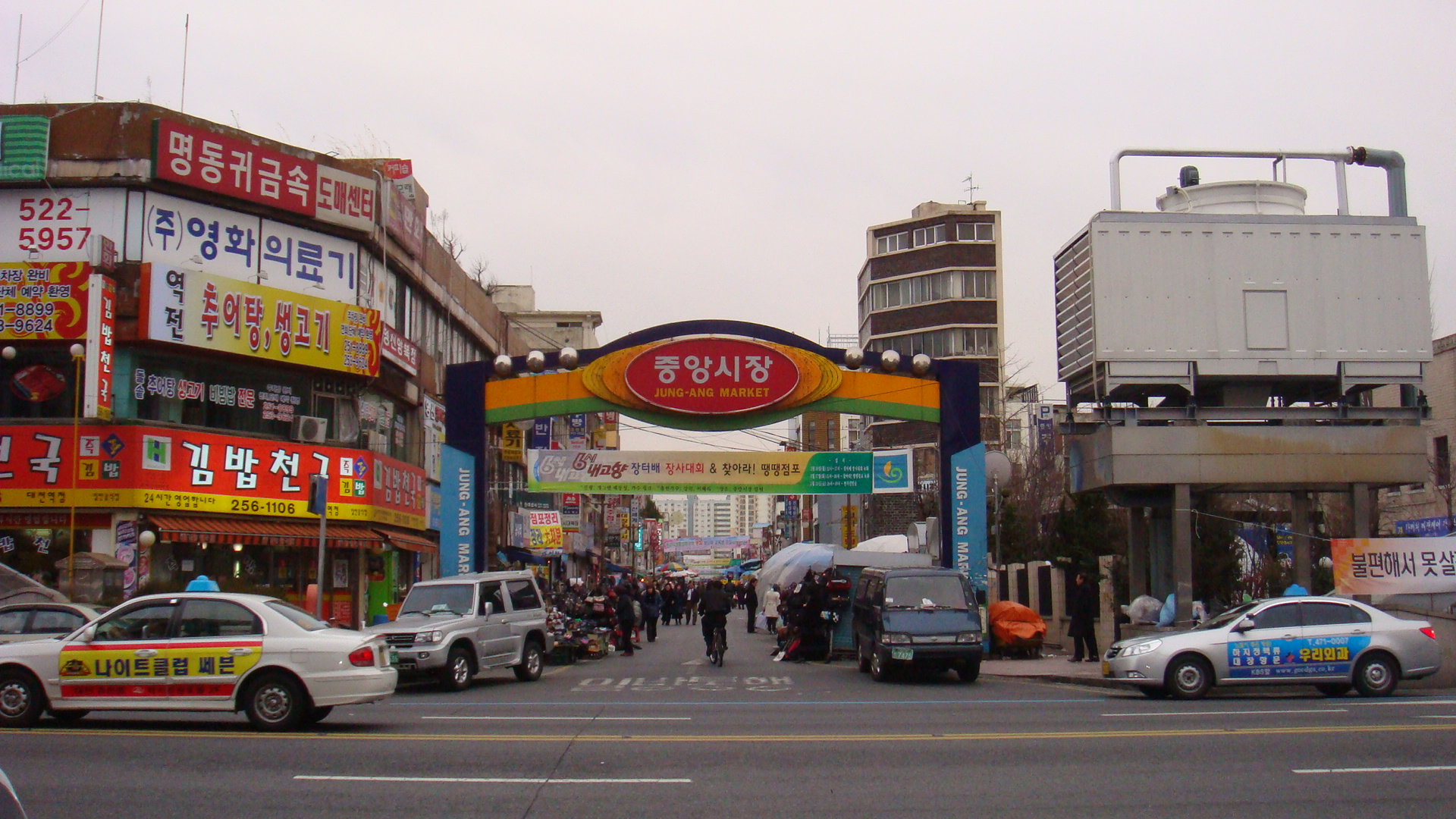 thanks to the Commonist